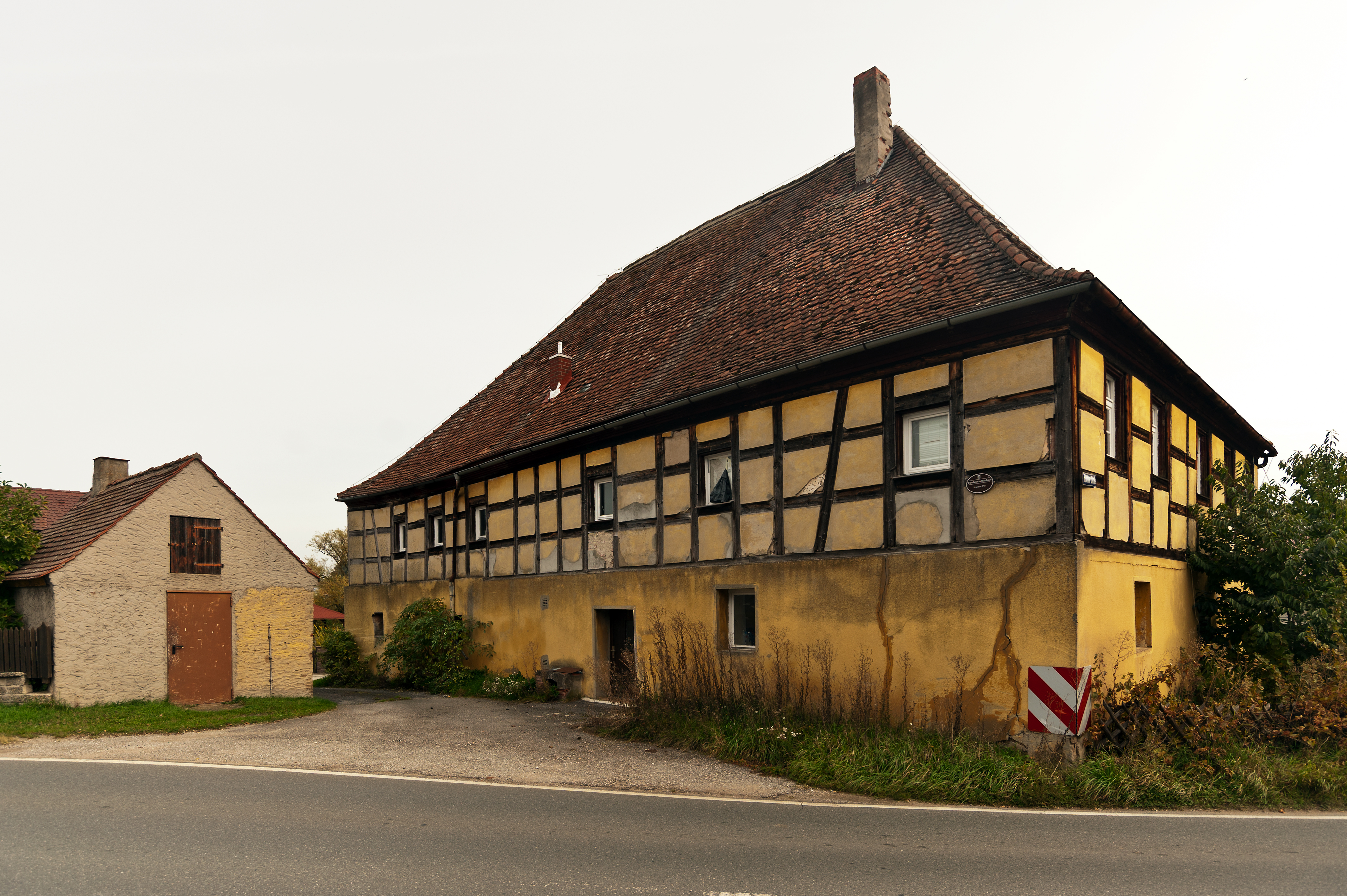 This is a photograph of an architectural monument.